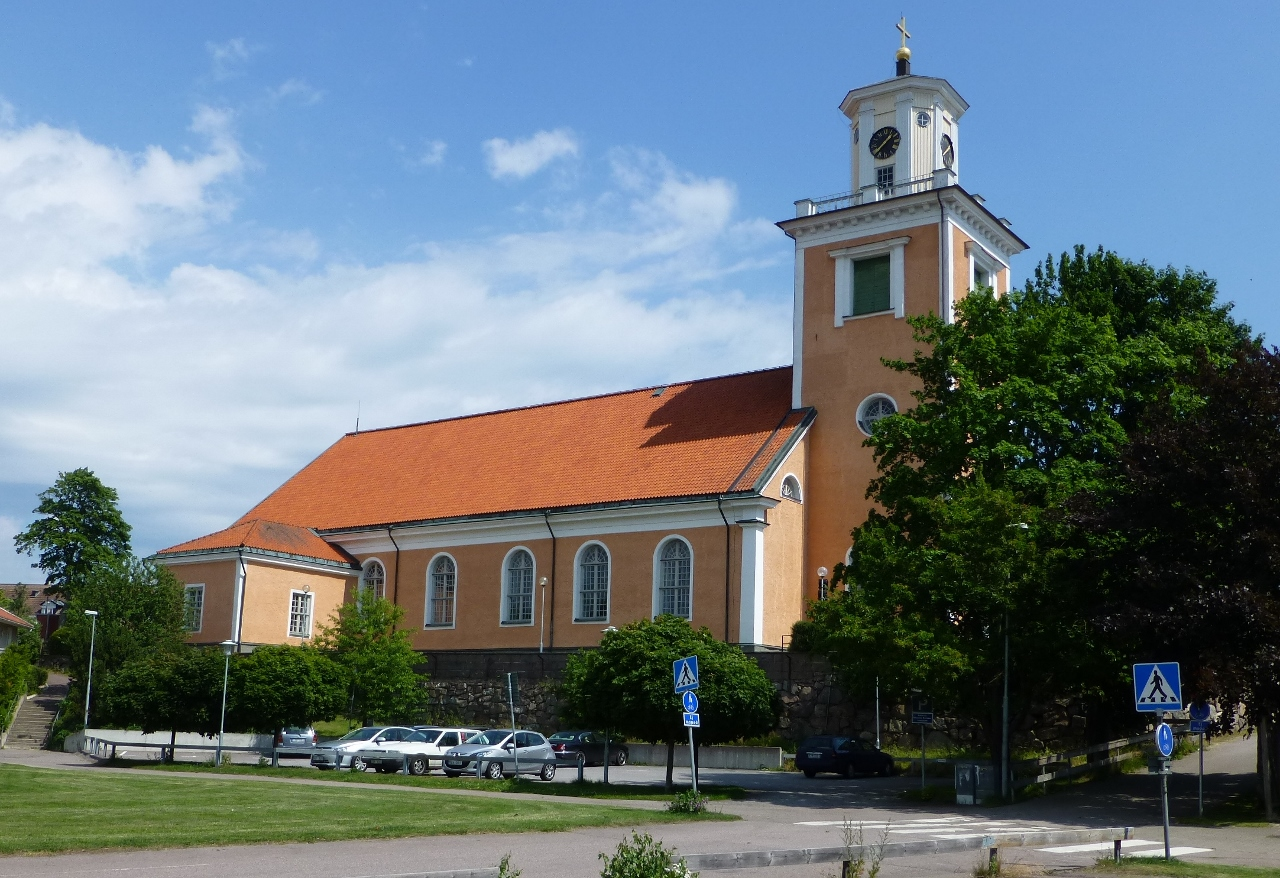 Mönsterås Church.Exterior